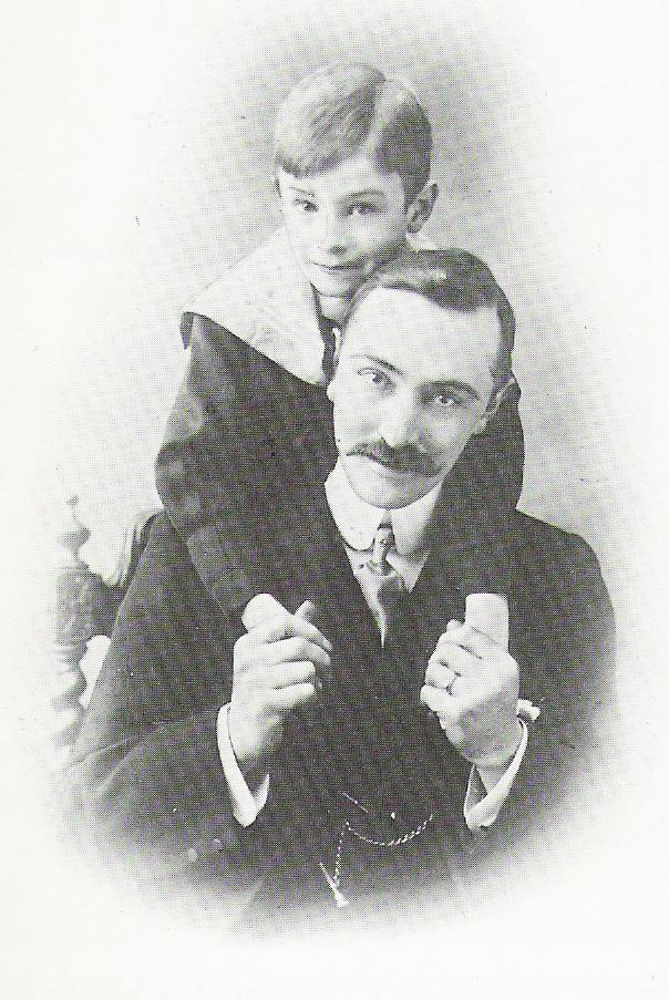 Photo of Norman Warne ca 1900